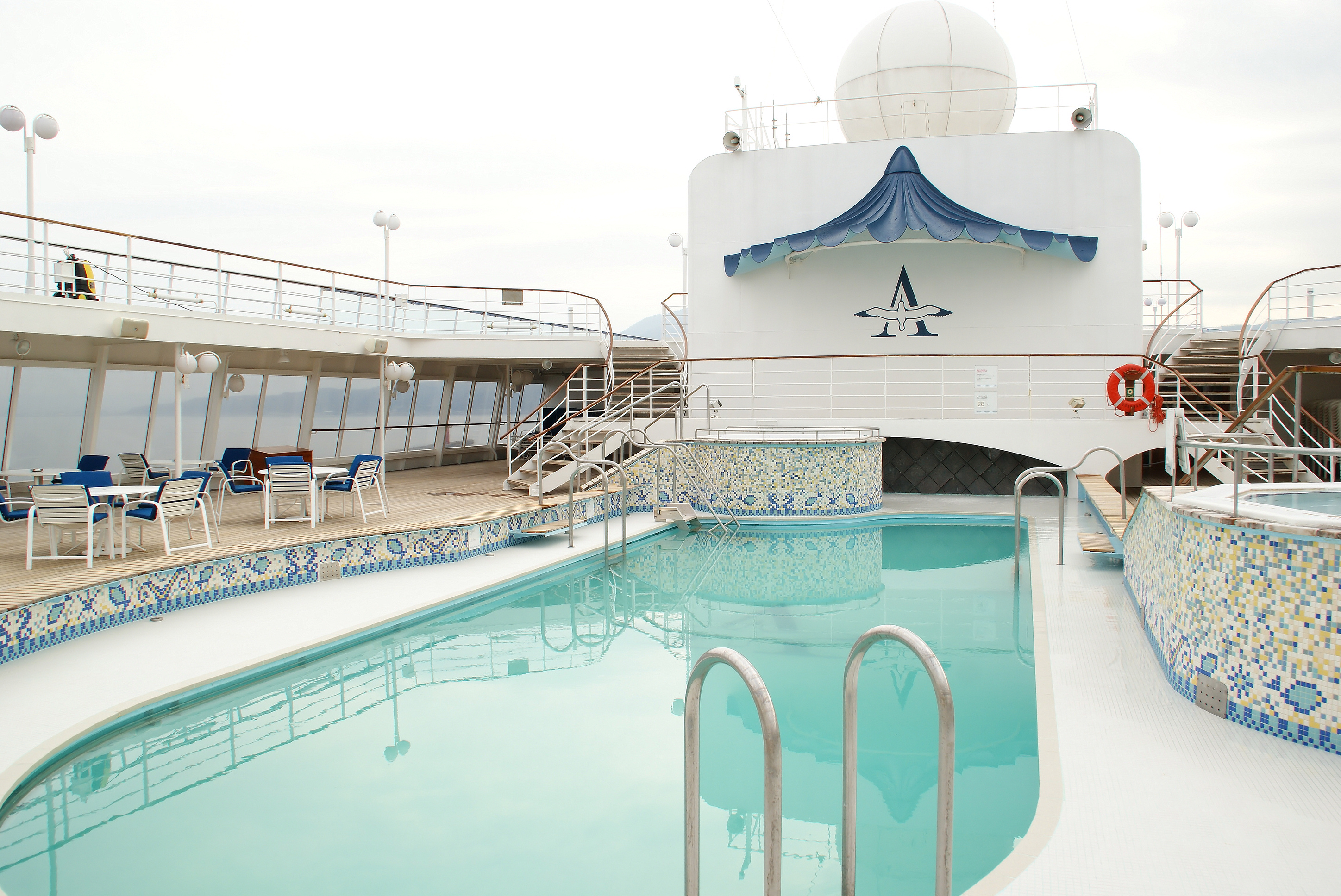 Asuka II, Seahorse Pool. Taken at Beppu Port(Beppu City, Oita Prefecture, Japan).